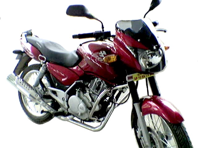 The 2004 Bajaj Pulsar 150 DTSi My Bajaj Pulsar 150 DTSi Bike. Model August Year 2004 Engine: 4 Stroke, Single Cylinder, Air Cooled, 150 CC, 13 BHP (@8500rpm). Twin Spark plug. Digital ignition. Transmission: 5 Speed Gear Box. Mileage: Best 60 Kmpl / Worst 45 Kmpl